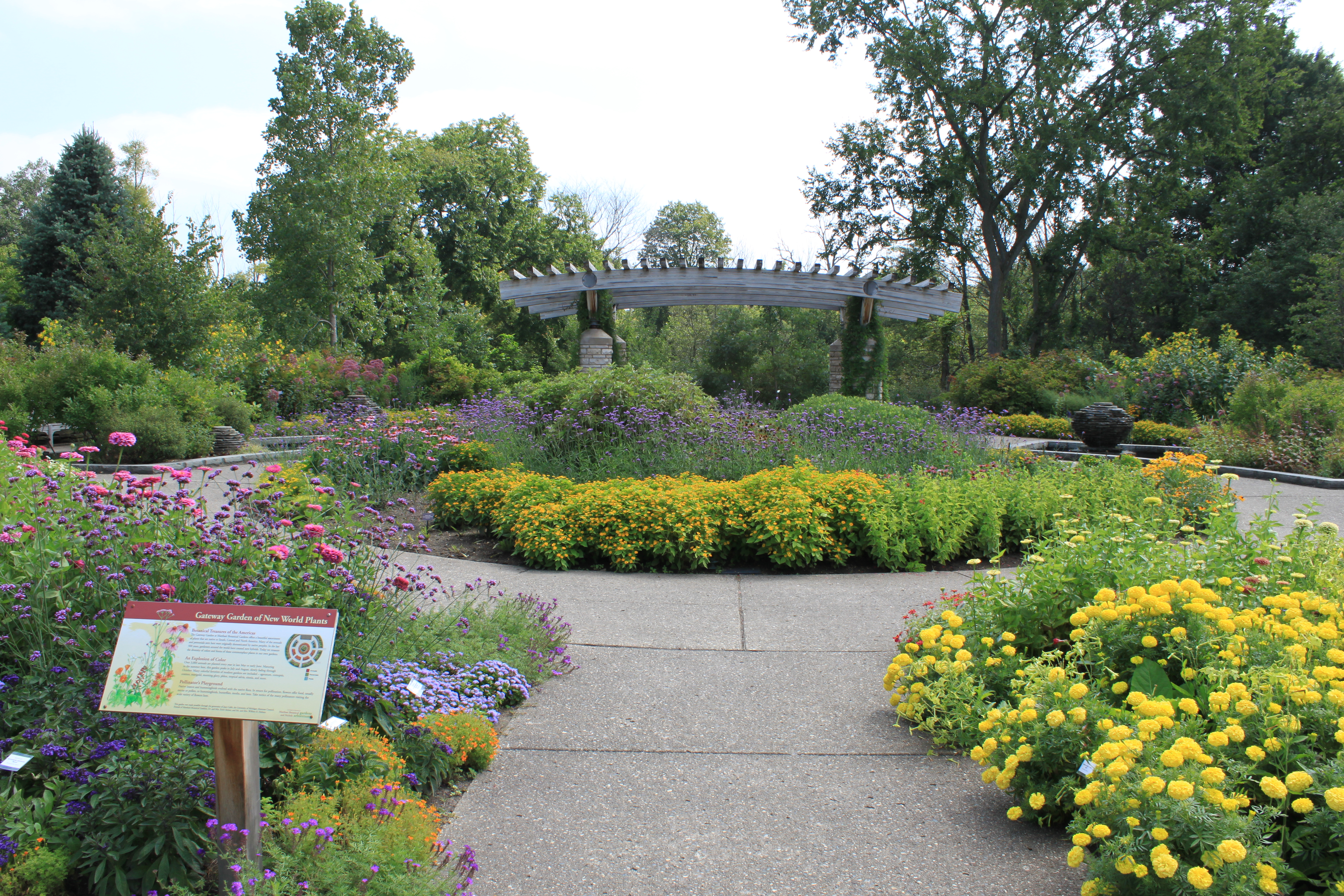 Gateway Garden of New Worl Plants, University of Michigan Matthaie Botanical Gardens, 1800 Dixboro Road, Superior Township, Michigan.